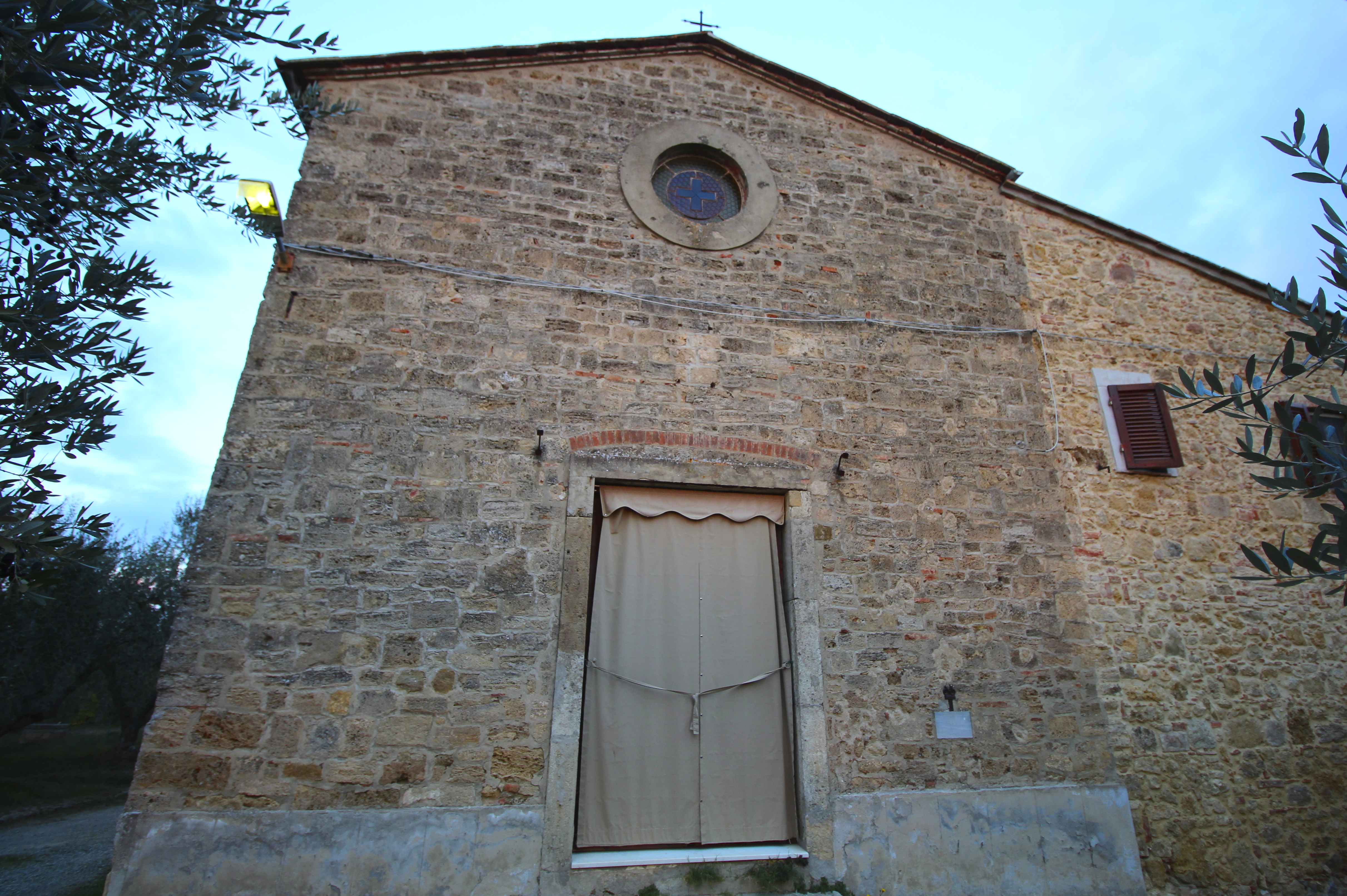 Church Santa Lucia a Bolzano (also: Santa Lucia a Bolsano), Case Bolzano, village in the territory of Poggibonsi, Province of Siena, Tuscany, Italy